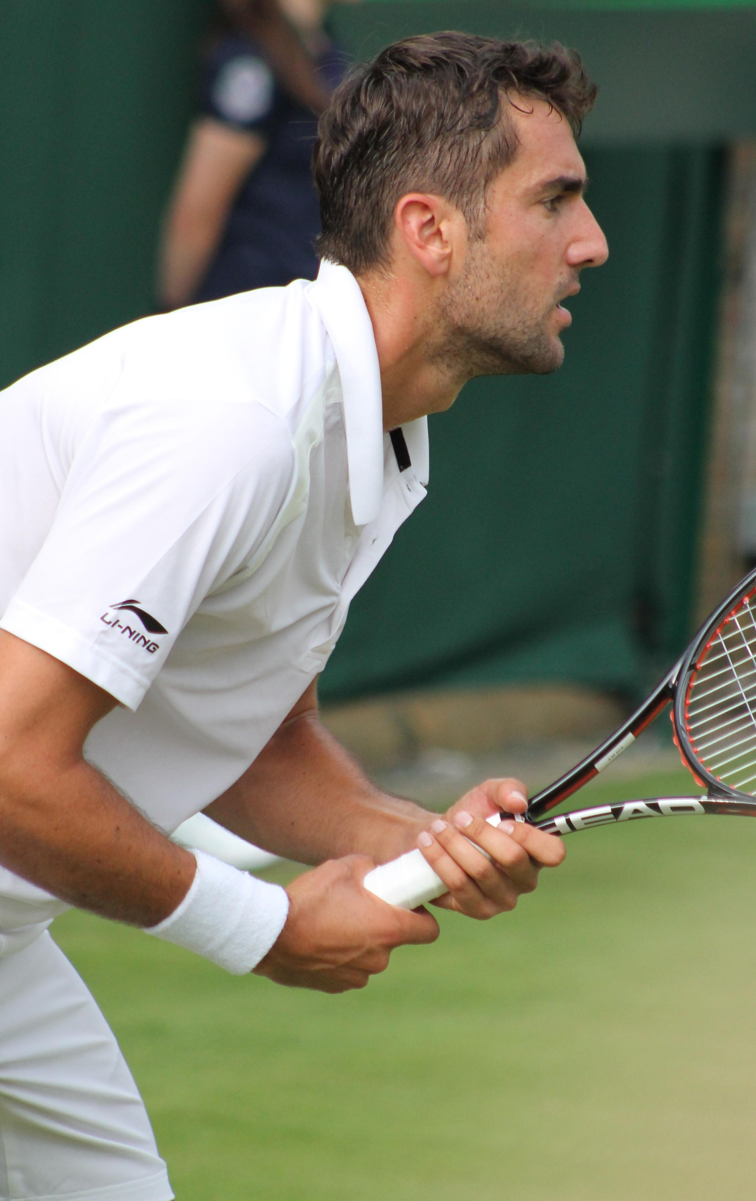 Cilic WM14 (13)